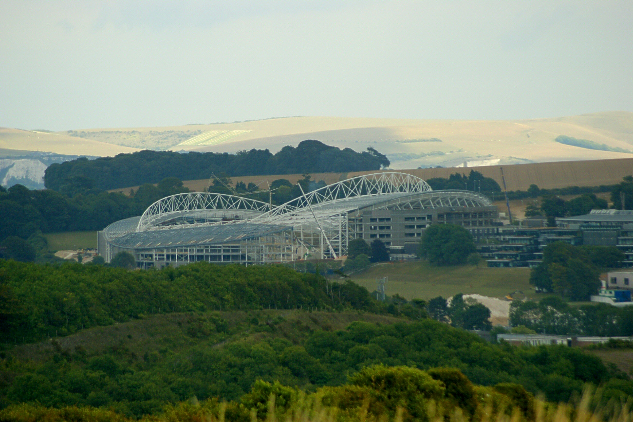 Amex Stadium July 2010